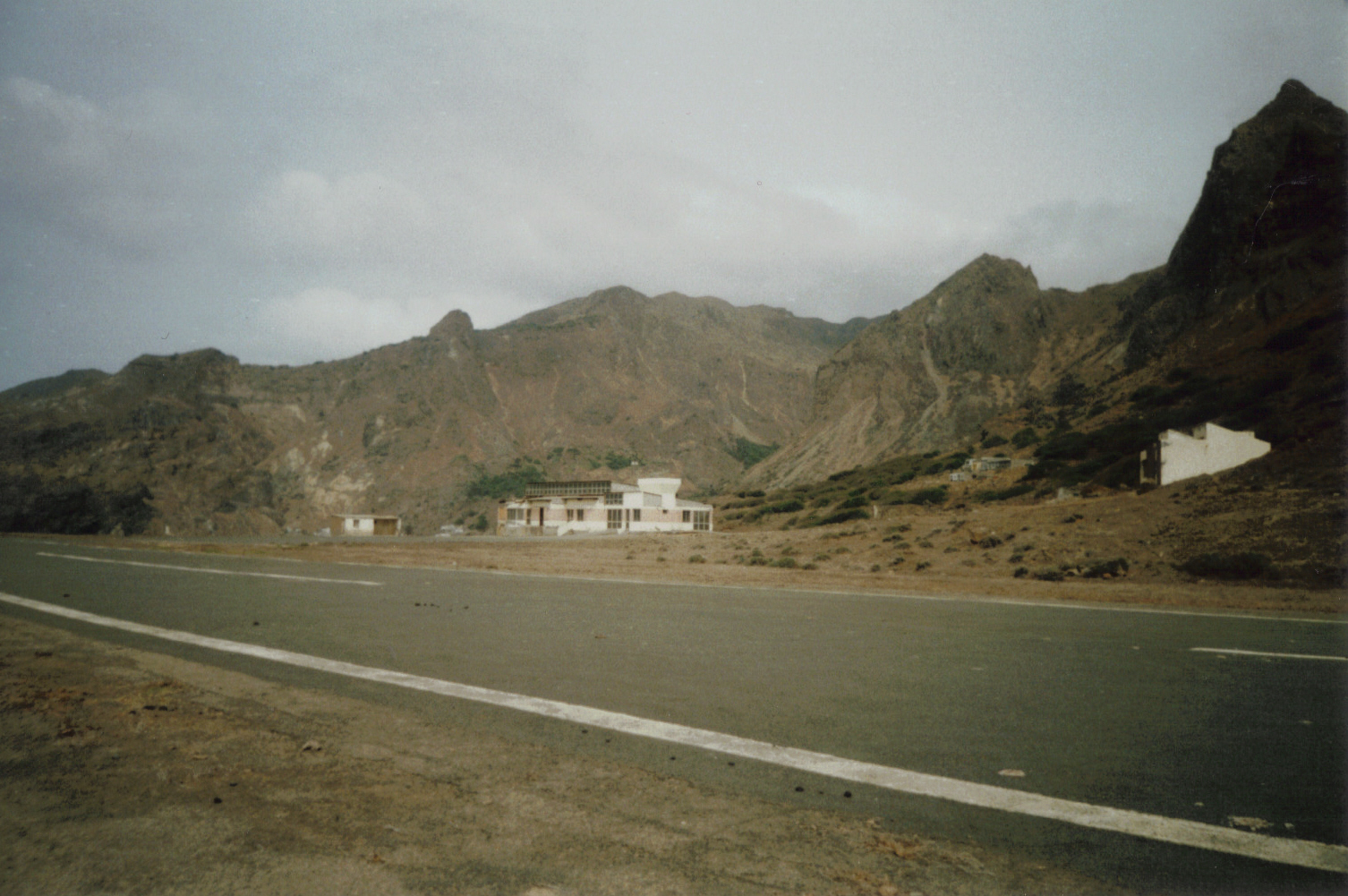 Former Airport in Fajã de Agua, ilha Brava, Cabo Verde.